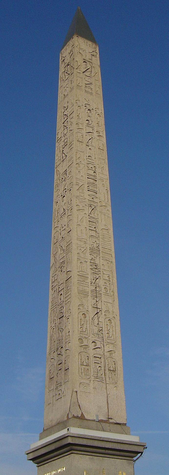 The obelisk from Luxor in the Place de la Concorde in Paris